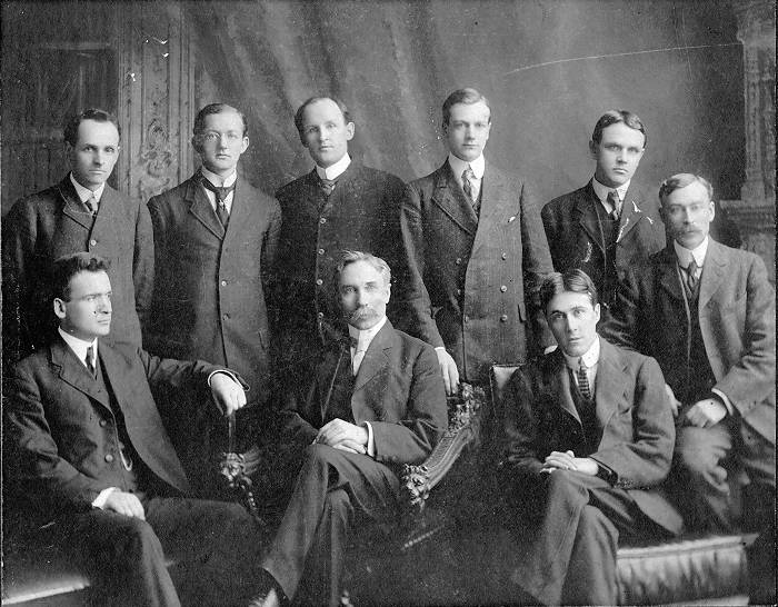 Faculty of McGill University College of British Columbia. Lemuel Robertson and Arthur Boak are third and fourth from the left in the back row.